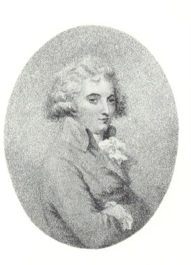 Portrait of Irish opera singer Michael Kelly (1762-1826)